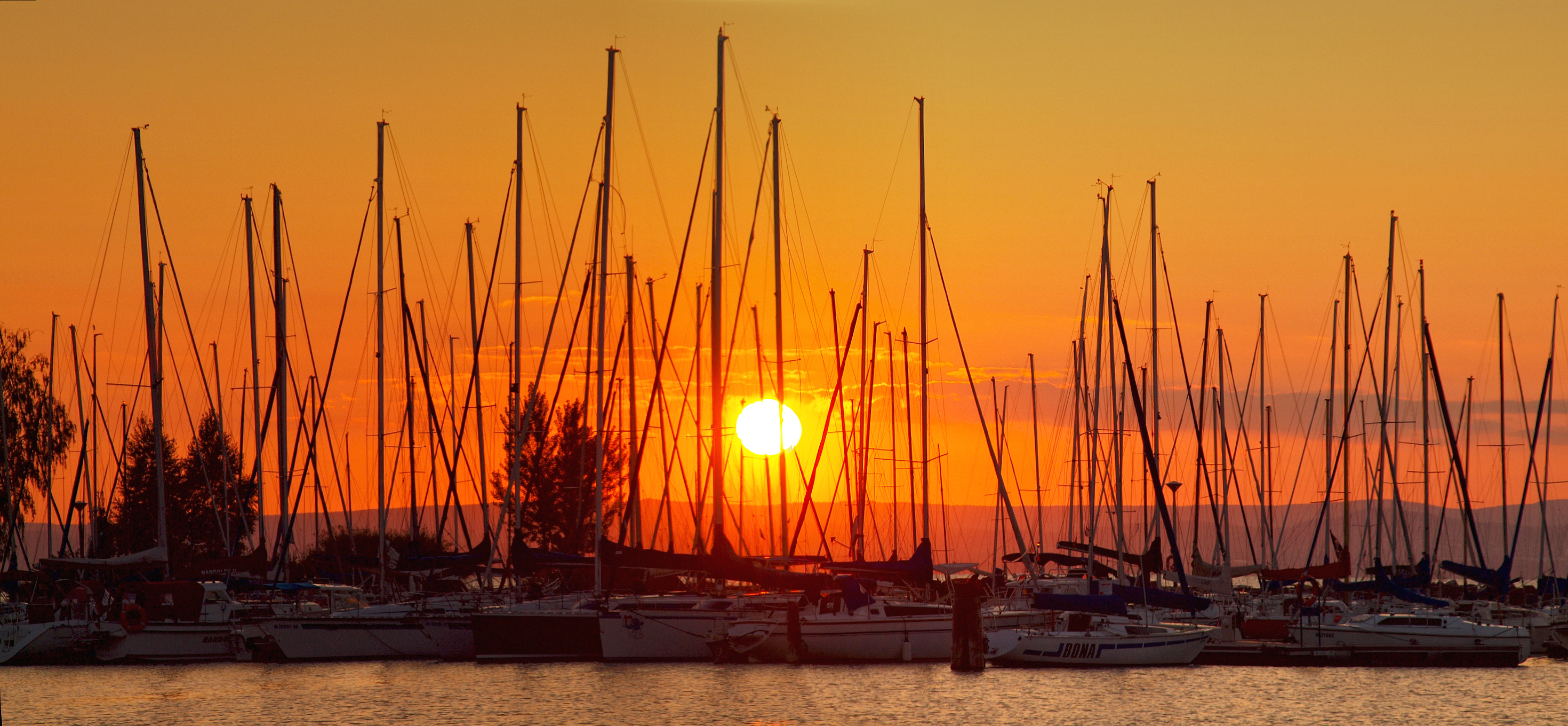 Siófok (Hungary) - Coucher de soleil sur la marina